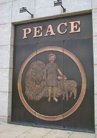 Church seal on a set of doors to the Independence Temple. Taken by User:John Hamer.